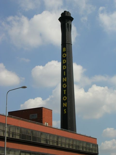 The chimney of Boddington's Strangeways Brewery in Manchester, England. Beer had been brewed on this site for over 200 years but production ceased in February 2005. The "Cream of Manchester" is now brewed elsewhere.